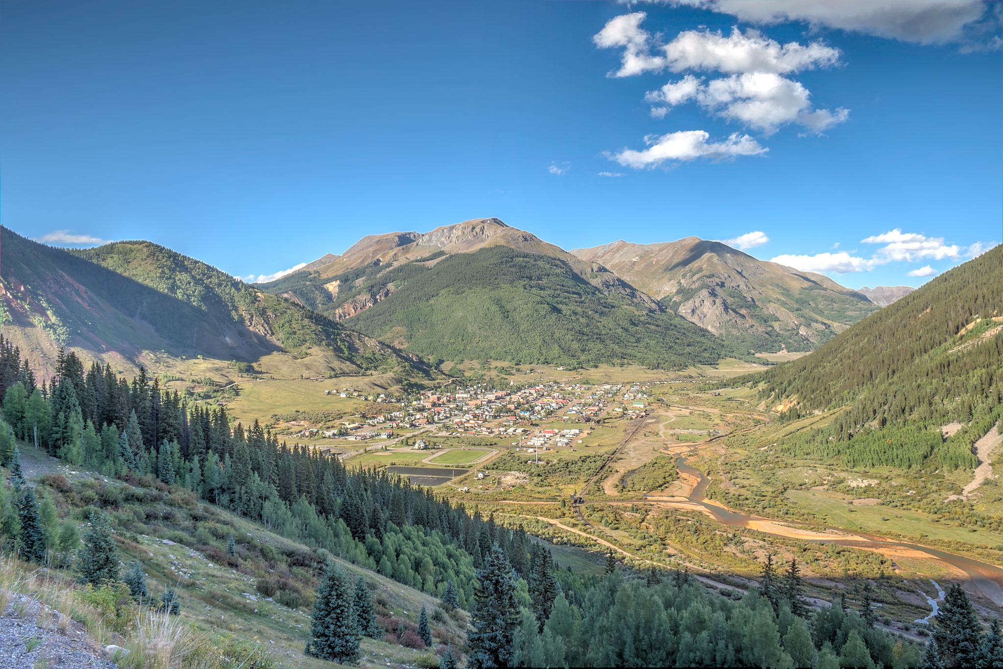 Silverton, CO from US Route 550